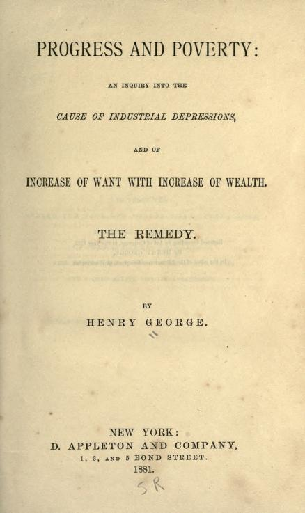 Title page of Henry George's Book, Progress and Poverty. Fifth edition of 1881.